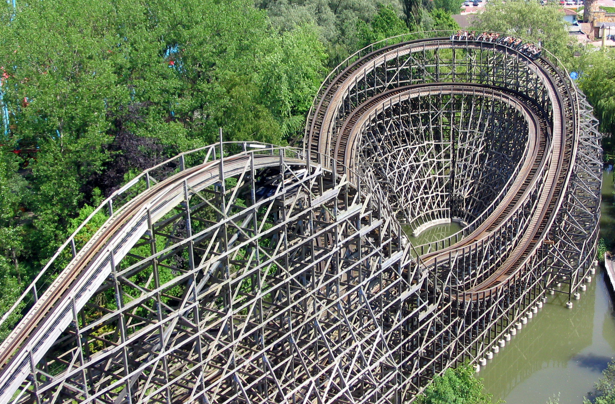 Roller coaster "Weerwolf" (Dutch) or "Loup Garou" (French) at Walibi Belgium